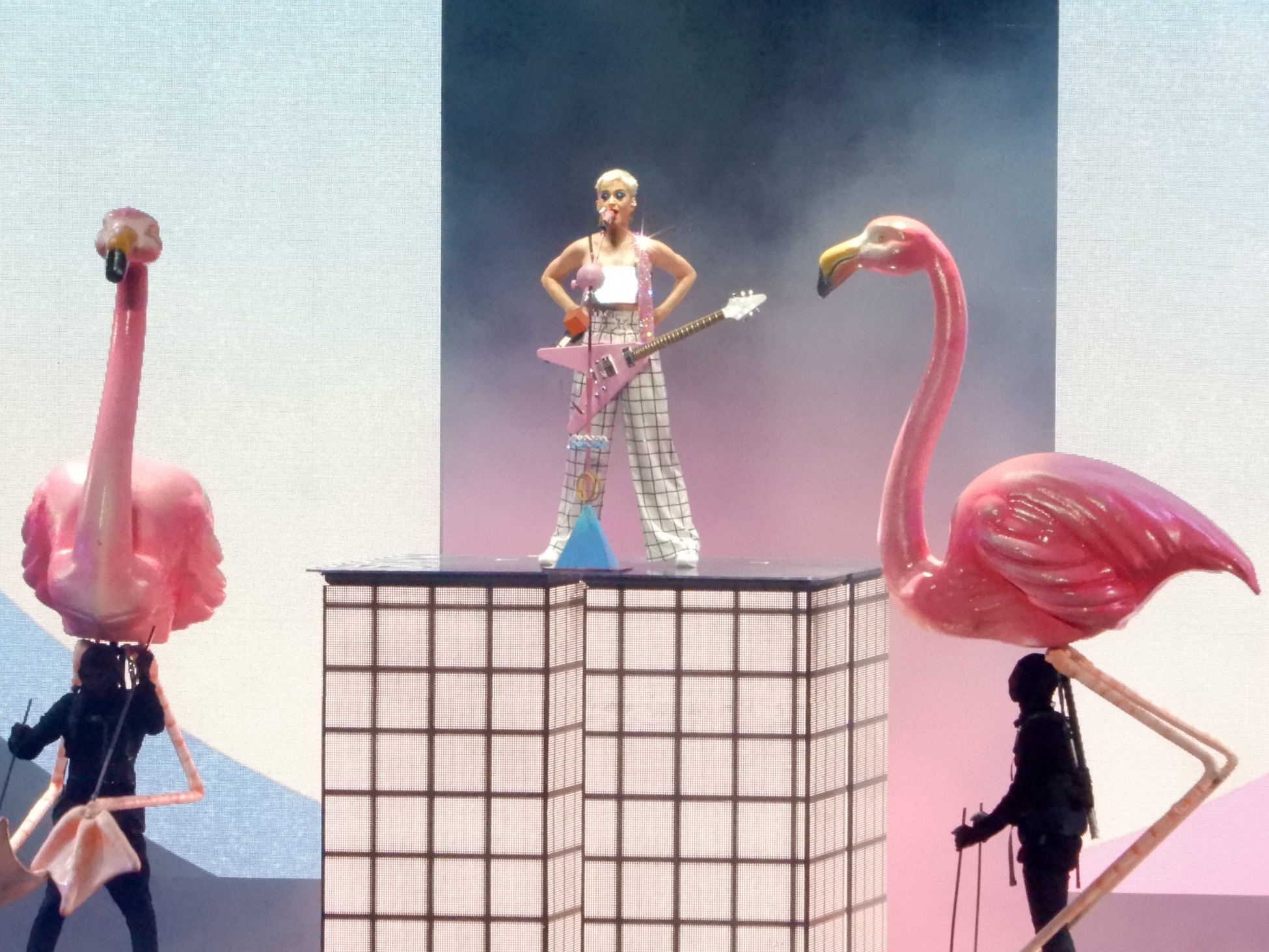 Katy Perry at Madison Square Garden